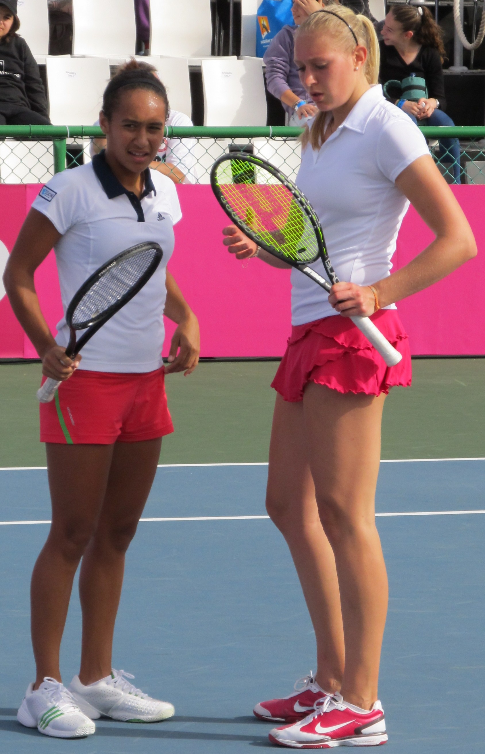 The tennis players Heather Watson and Jocelyn Rae of Great Britain during their match against Mai Grage and Caroline Wozniacki of Denmark in the 3rd day of Fed Cup Group I 2011 Europe/ Africa in Eilat, Israel